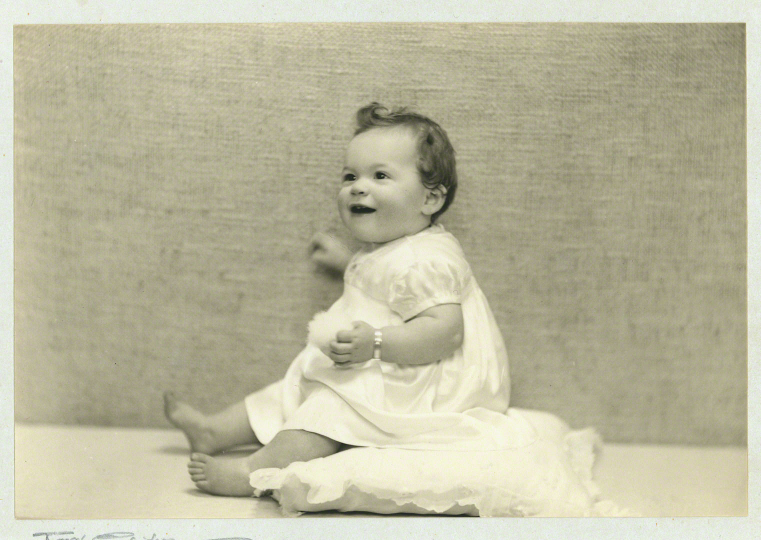 Alfie Fripp (1913-2013)